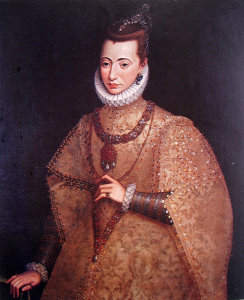 Margherita Gonzaga, sister of Ferrante II Gonzaga of Guastala and wife of Vespasiano I Gonzaga of Sabbionetta